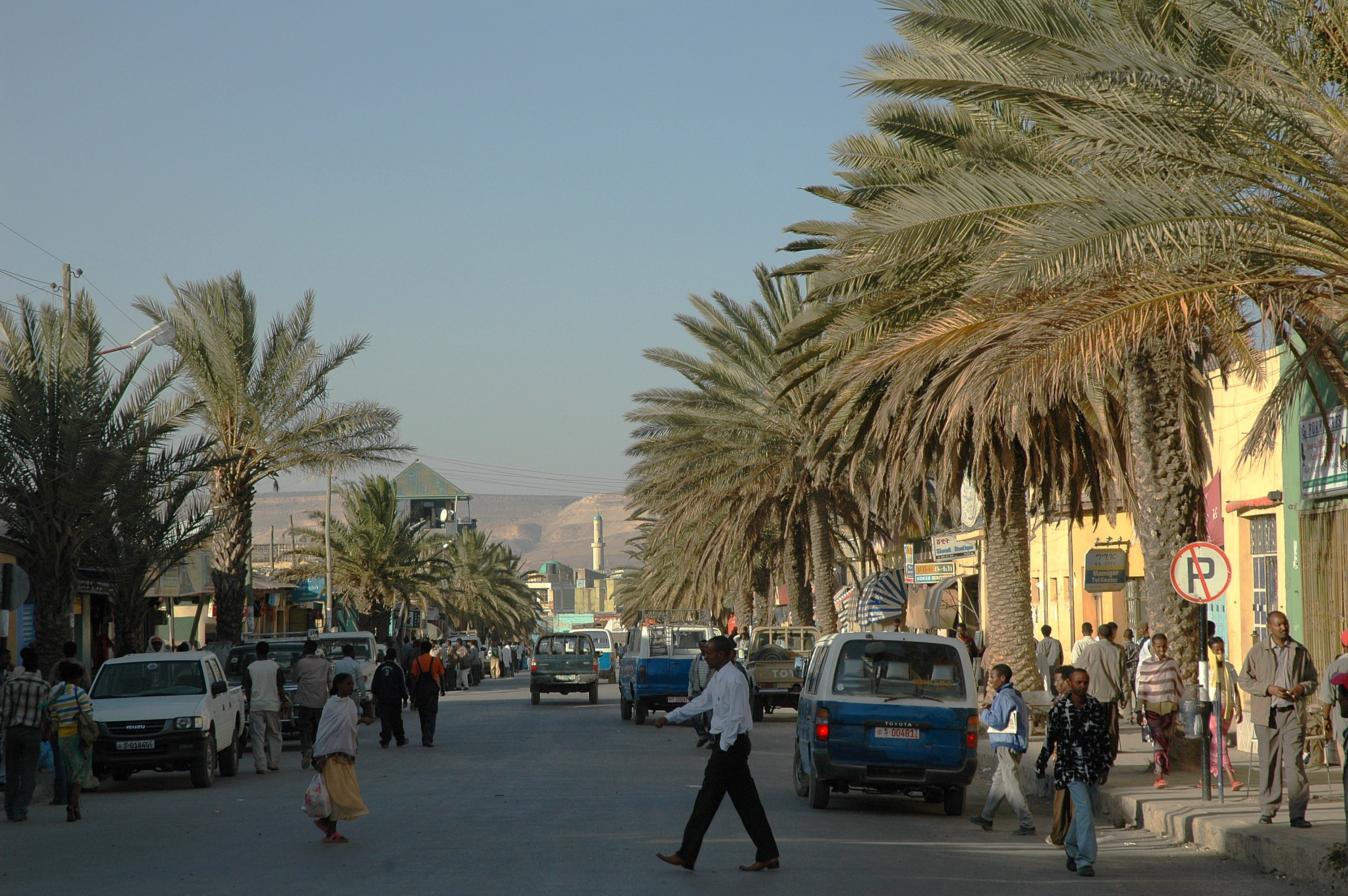 The central commercial street in Mekele, Ethiopia.